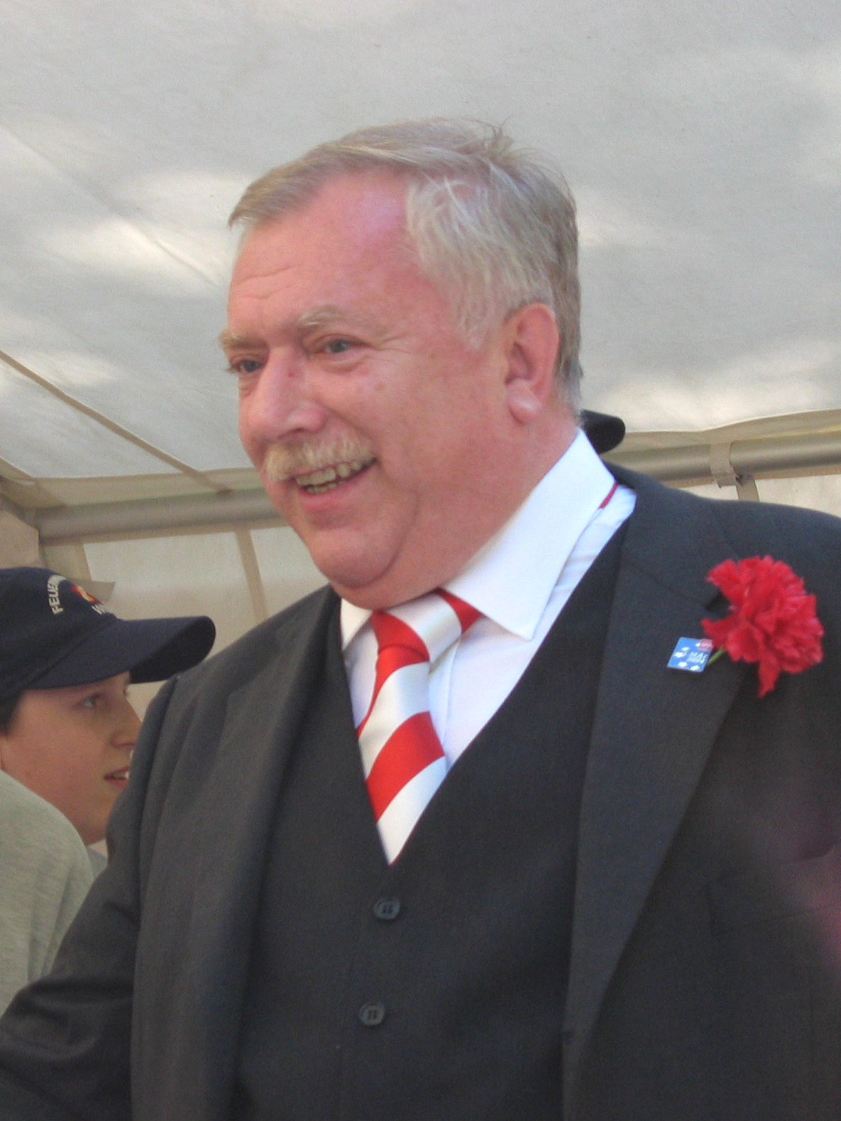 Michael Häupl @ 1 of may parade @ prater vienna